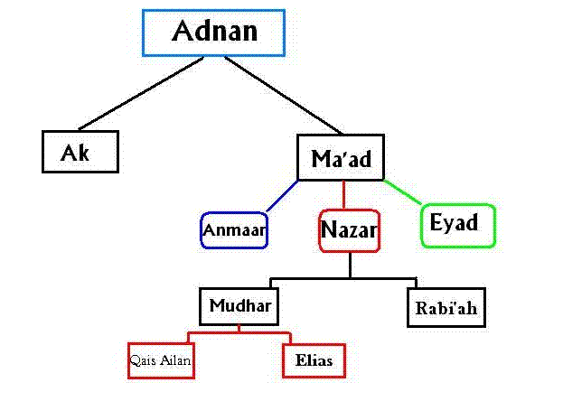 This is the Adnaite-Arabs Family tree